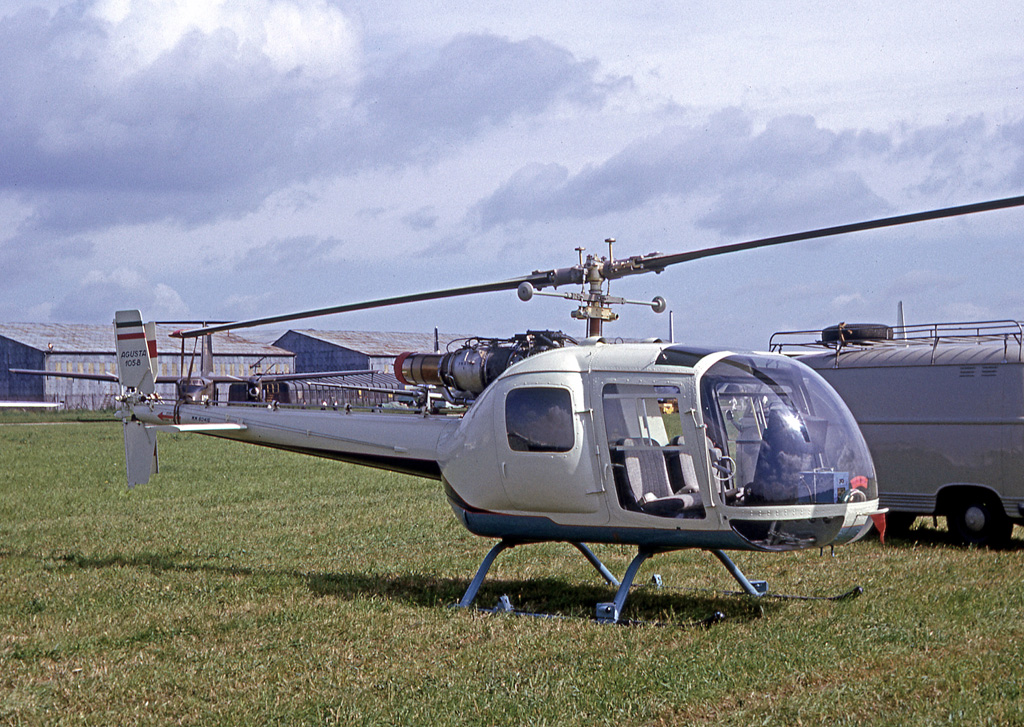 Agusta A105B MM80416 at the 1965 Paris Air Show